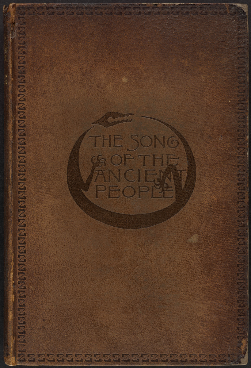 File name: 06_04_000229Title: PROCTOR(1893) The song of the ancient peopleDate issued: 1893Genre: Book coversNotes: Proctor, Edna Dean, 1829-1923 (Author)Collection: Sarah Wyman Whitman BindingsLocation: Boston Public Library, Special CollectionsRights: No known copyright restrictions.